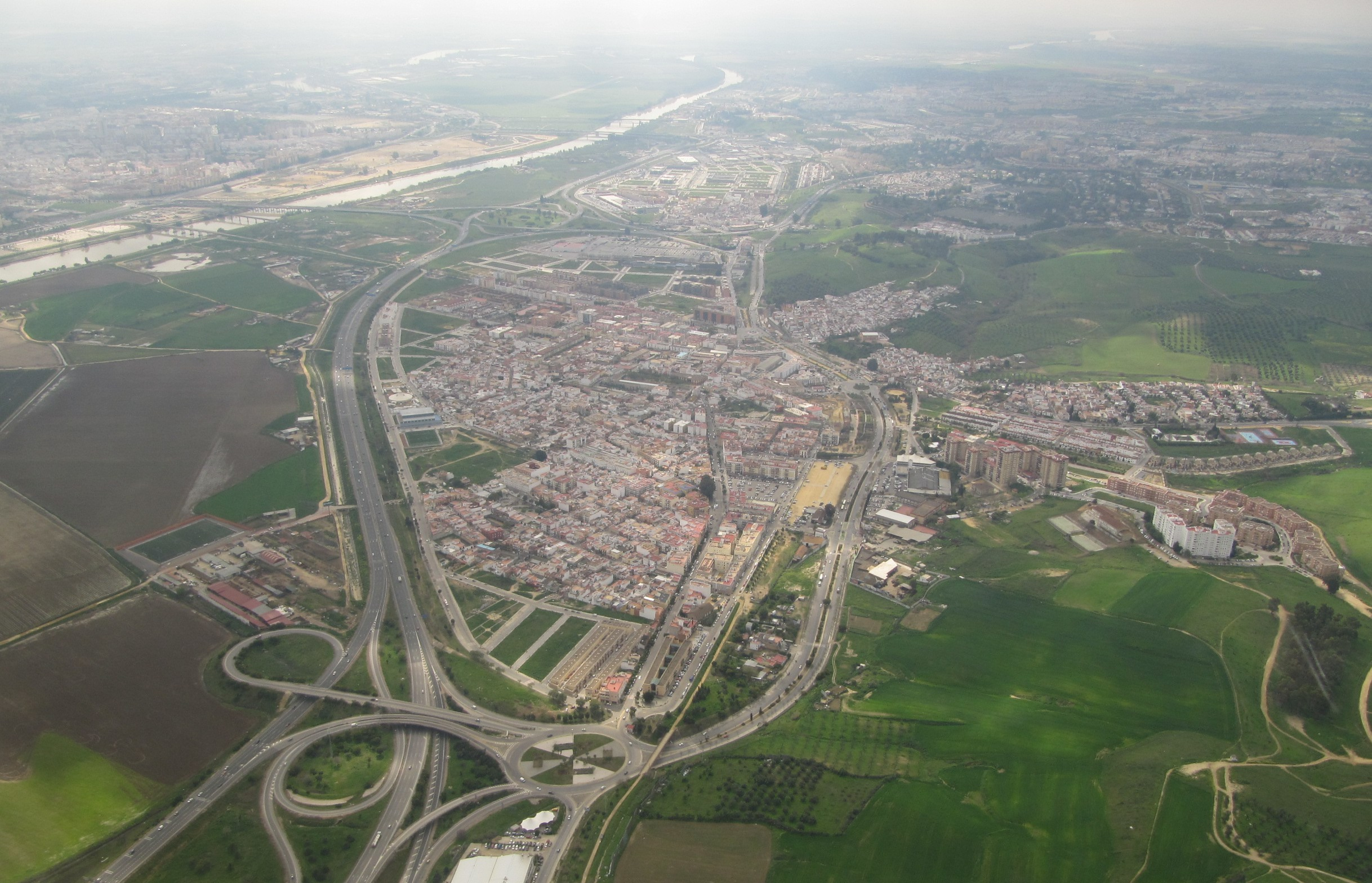 Camas